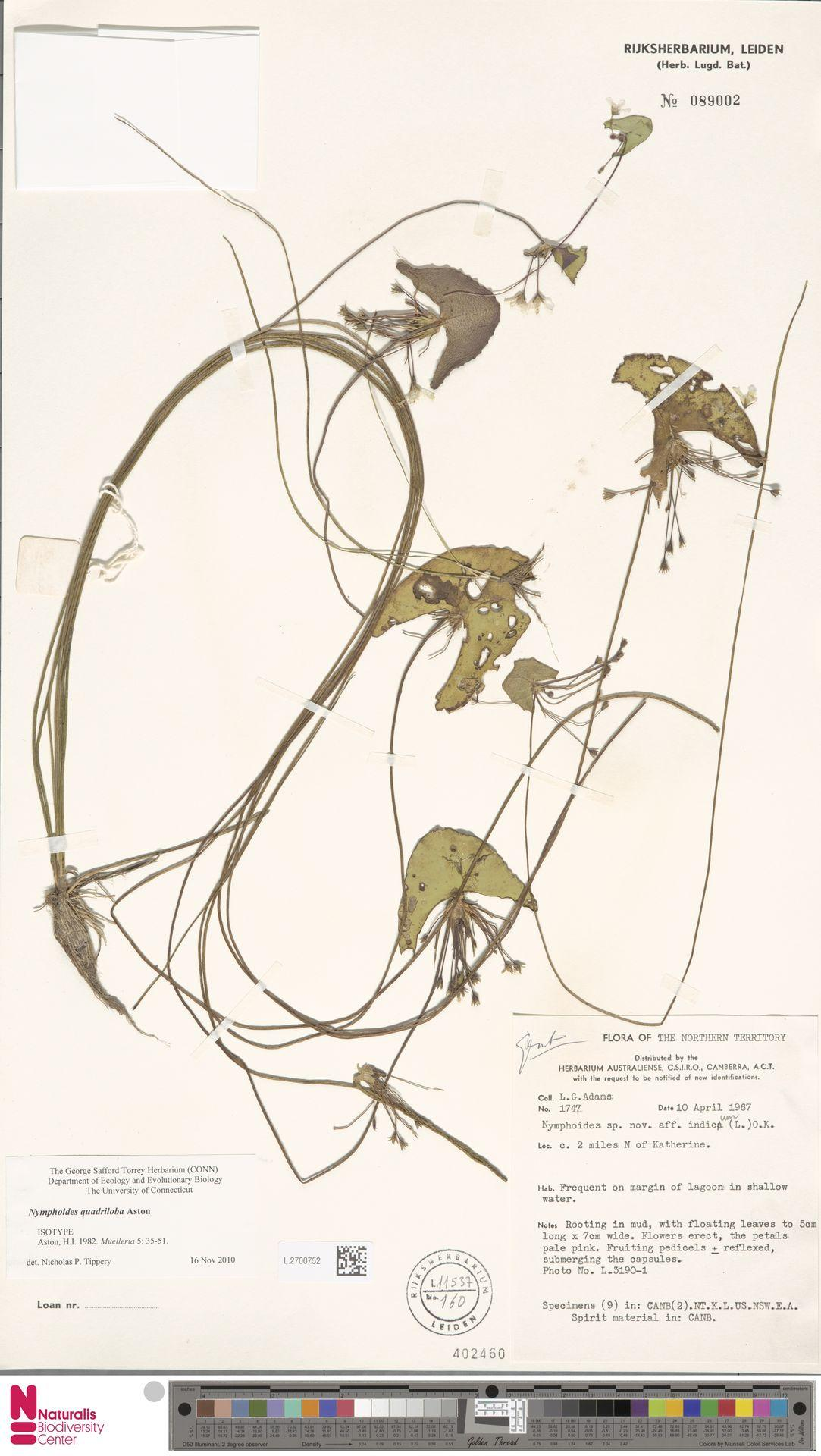 Nymphoides quadriloba Aston (type of) - Nymphoides quadriloba Aston (species)